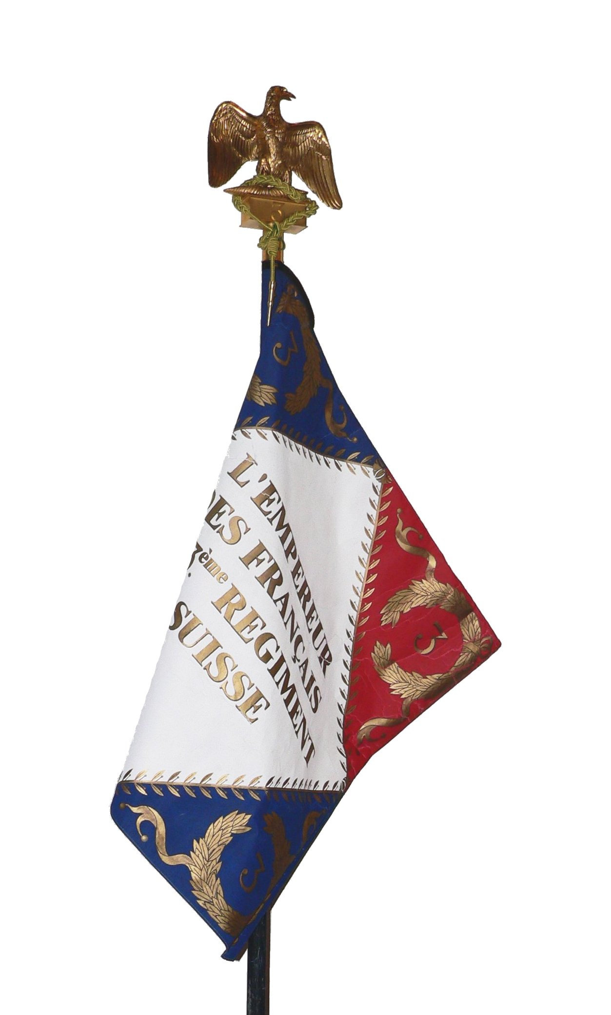 3e-reg-suisse-napoleon